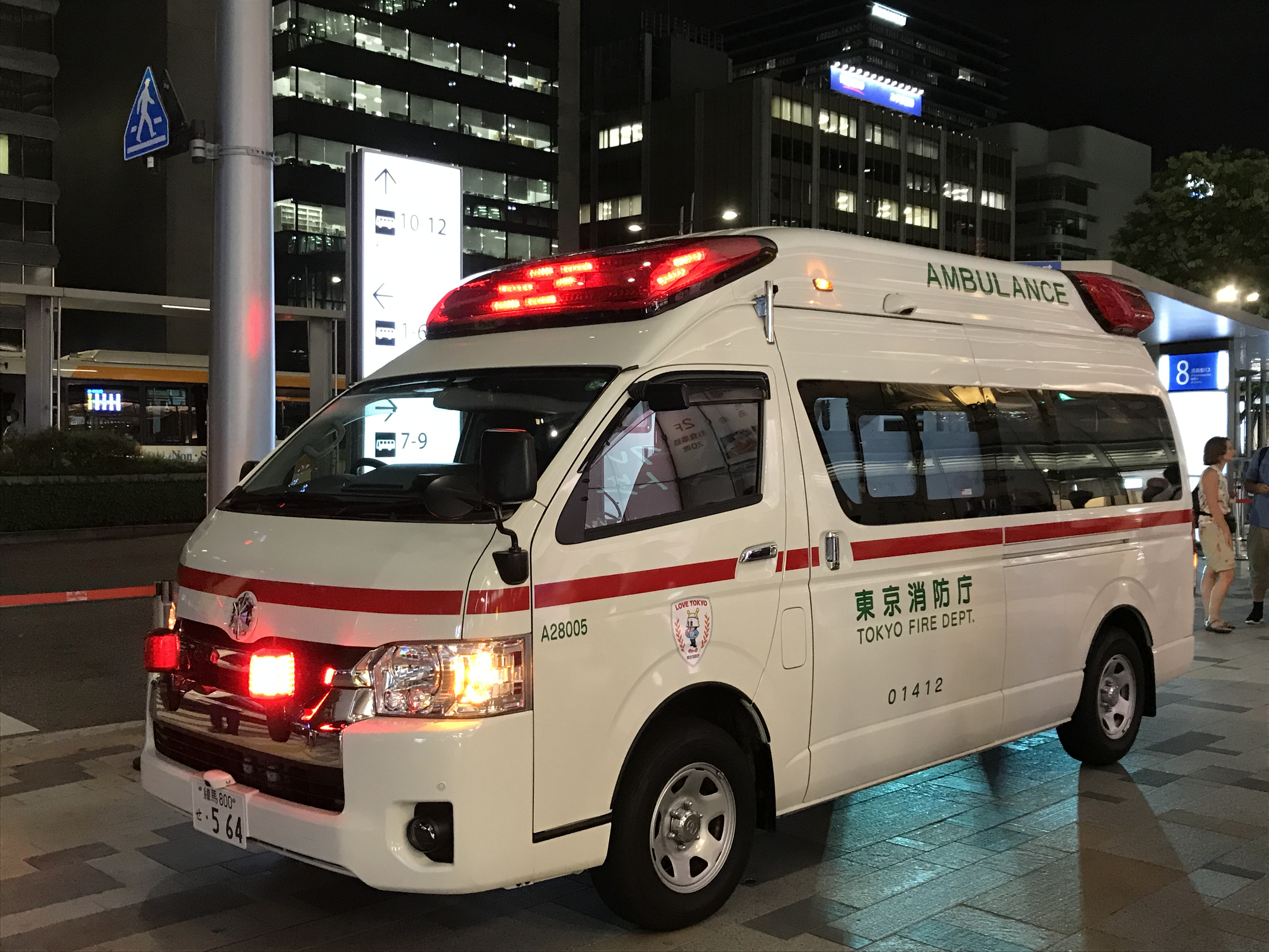 Front of the Toyota HiMedic parked in front of the JR Tokyo Station.